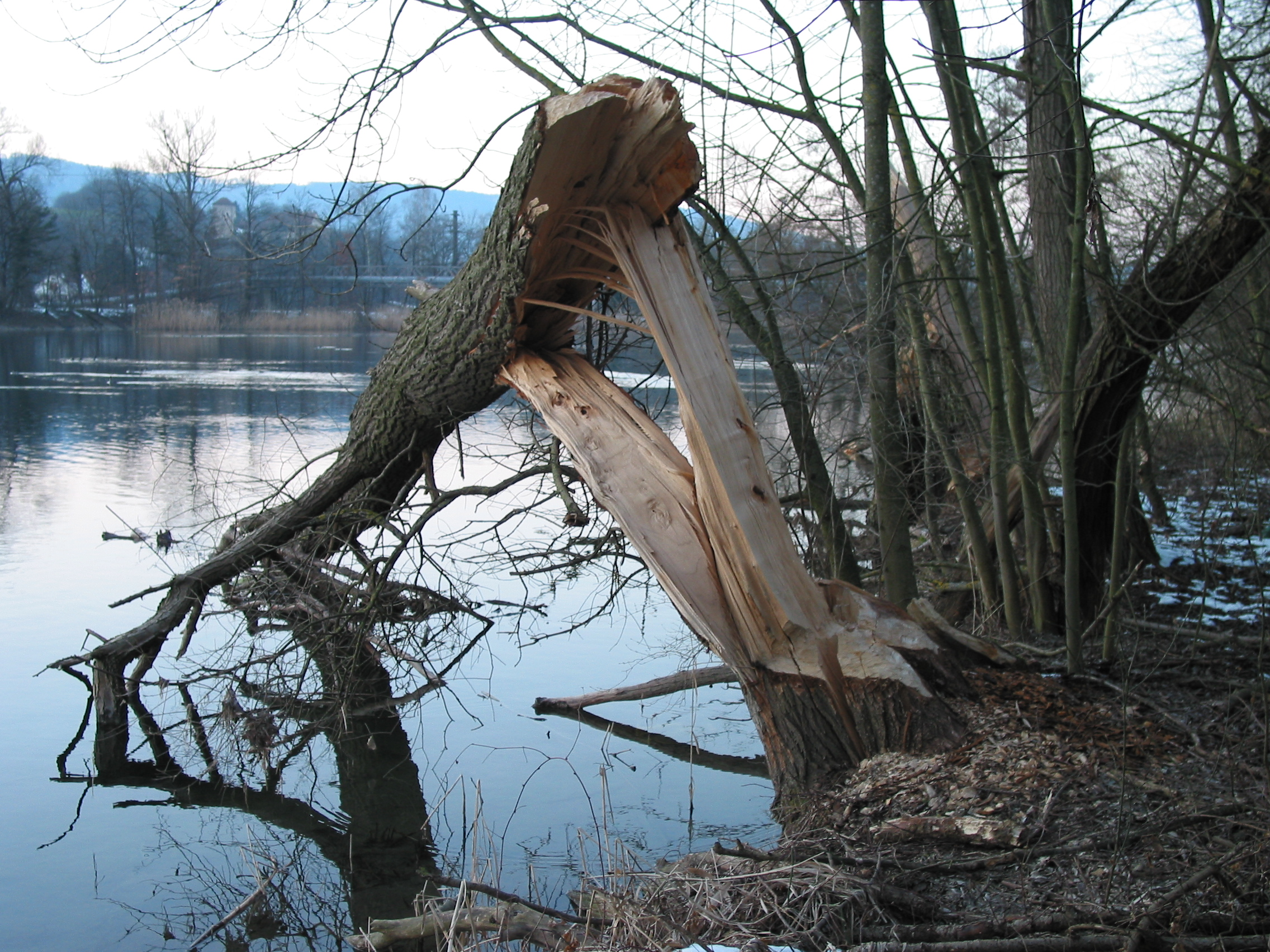 Tree at the shore of the river Aare, felled by beavers near Holderbank, Aargau, Switzerland